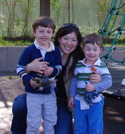 AuPairCare Au pair